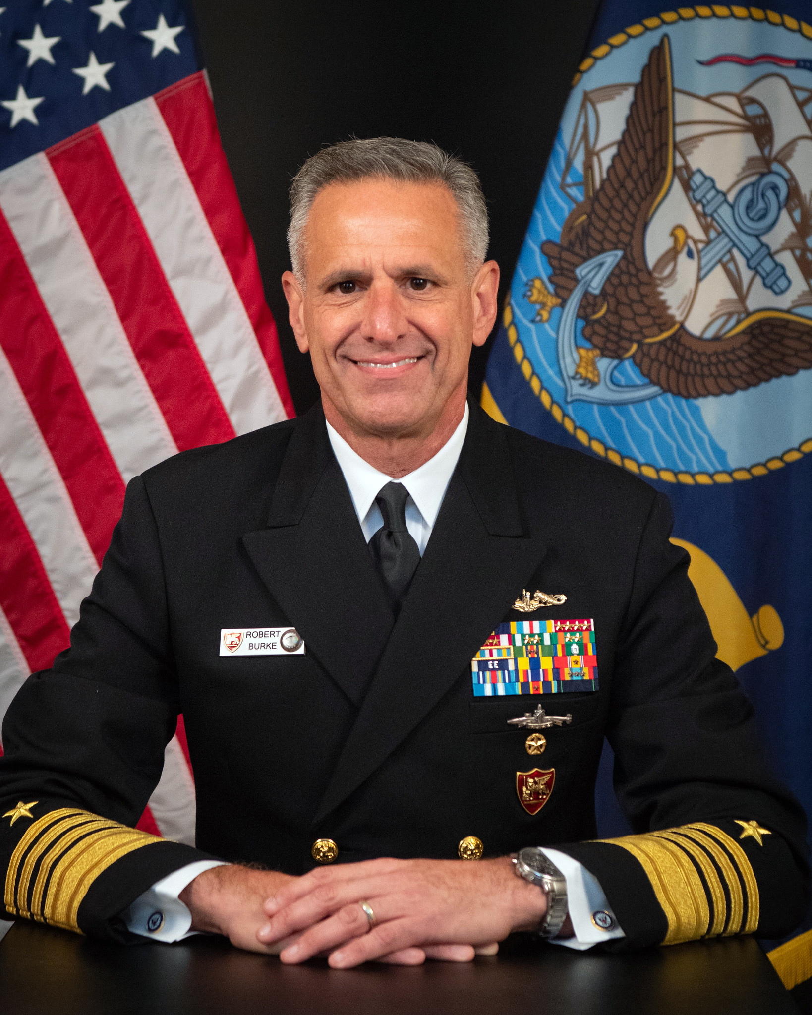 Latest official portrait of Admiral Burke as commander NAVEUR-NAVAF.